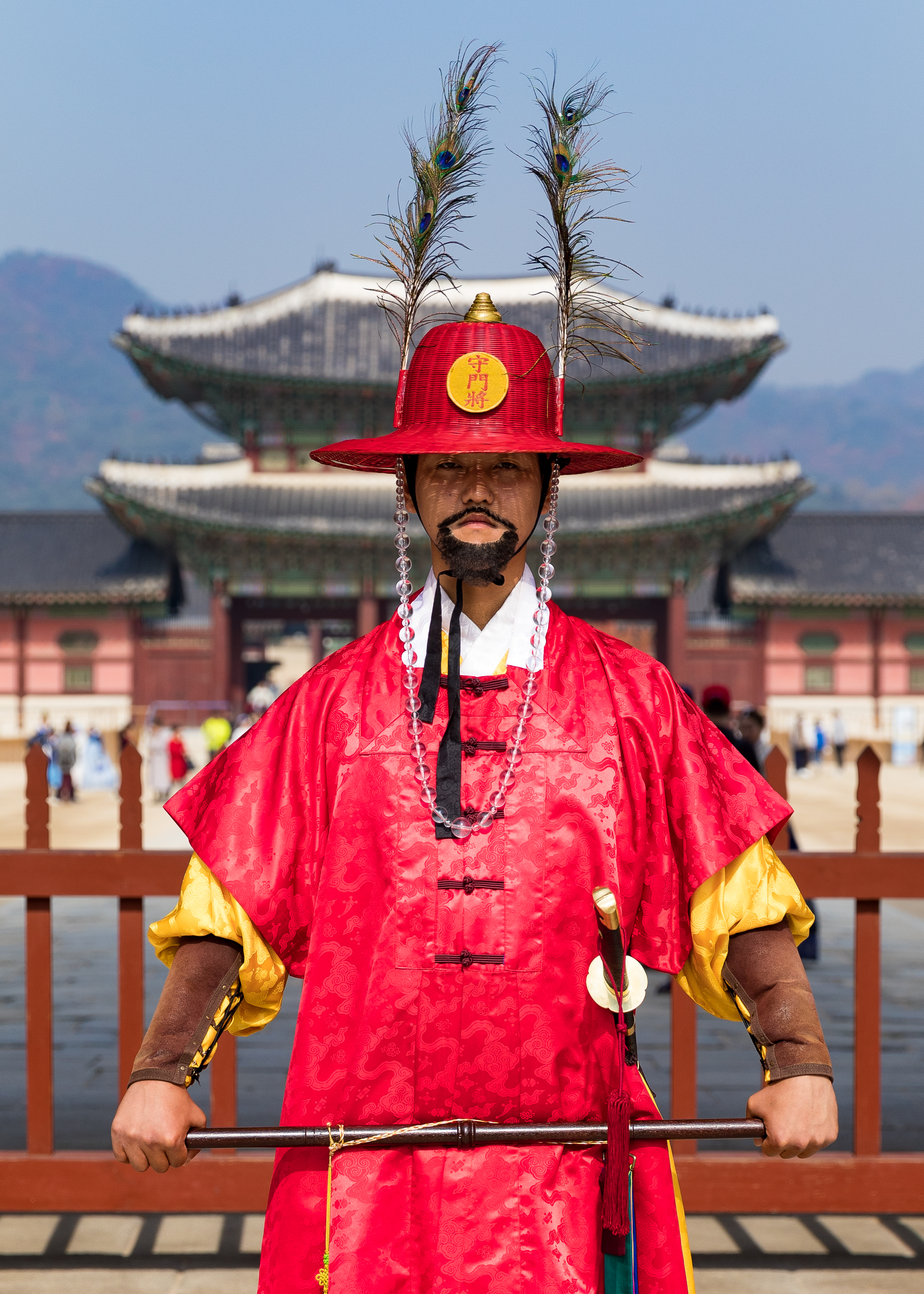 Royal Guard reenactor at Gwanghwamun Gate (광화문), Gyeongbokgung (경복궁), Seoul